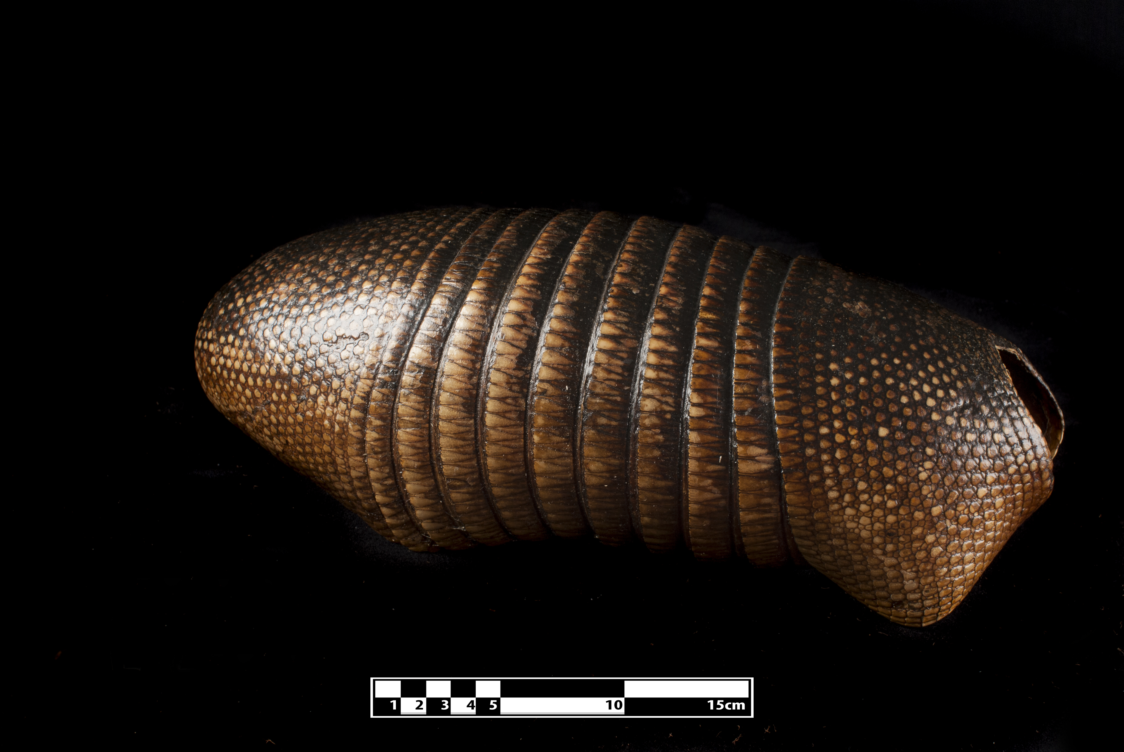 Armadillo shell. Dasypus novemcinctus Taxidermy of an armadillo shell on display at the Museum of Veterinary Anatomy FMVZ USP This file was published as the result of a partnership between the Museum of Veterinary Anatomy FMVZ USP, the RIDC NeuroMat and the Wikimedia Community User Group Brasil. This GLAM project is reported. Photography: Museum of Veterinary Anatomy FMVZ USP. Author: Wagner Souza e Silva.